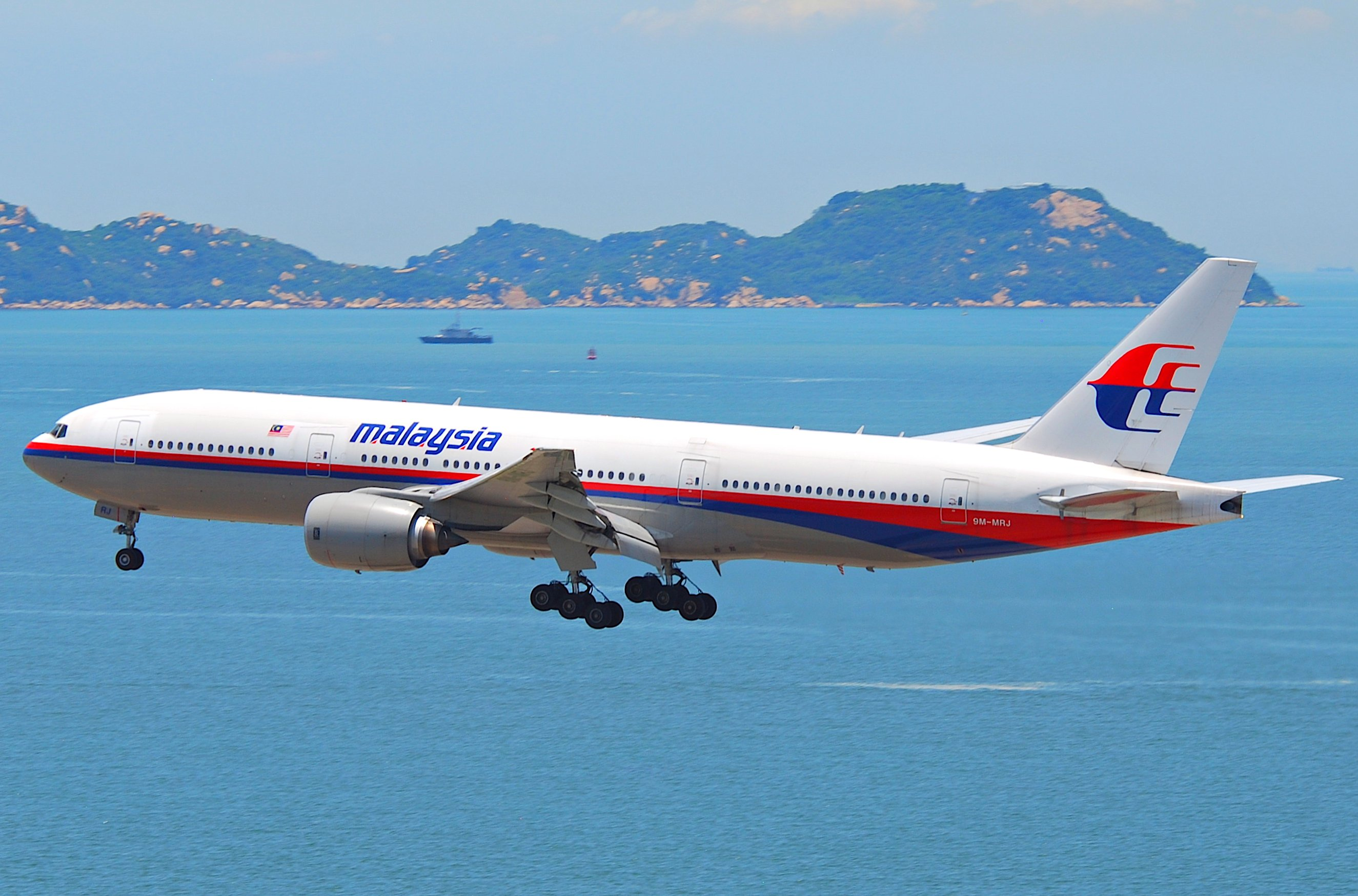 Malaysia Airlines Boeing 777-200ER; 9M-MRJ@HKG;04.08.2011/615lh